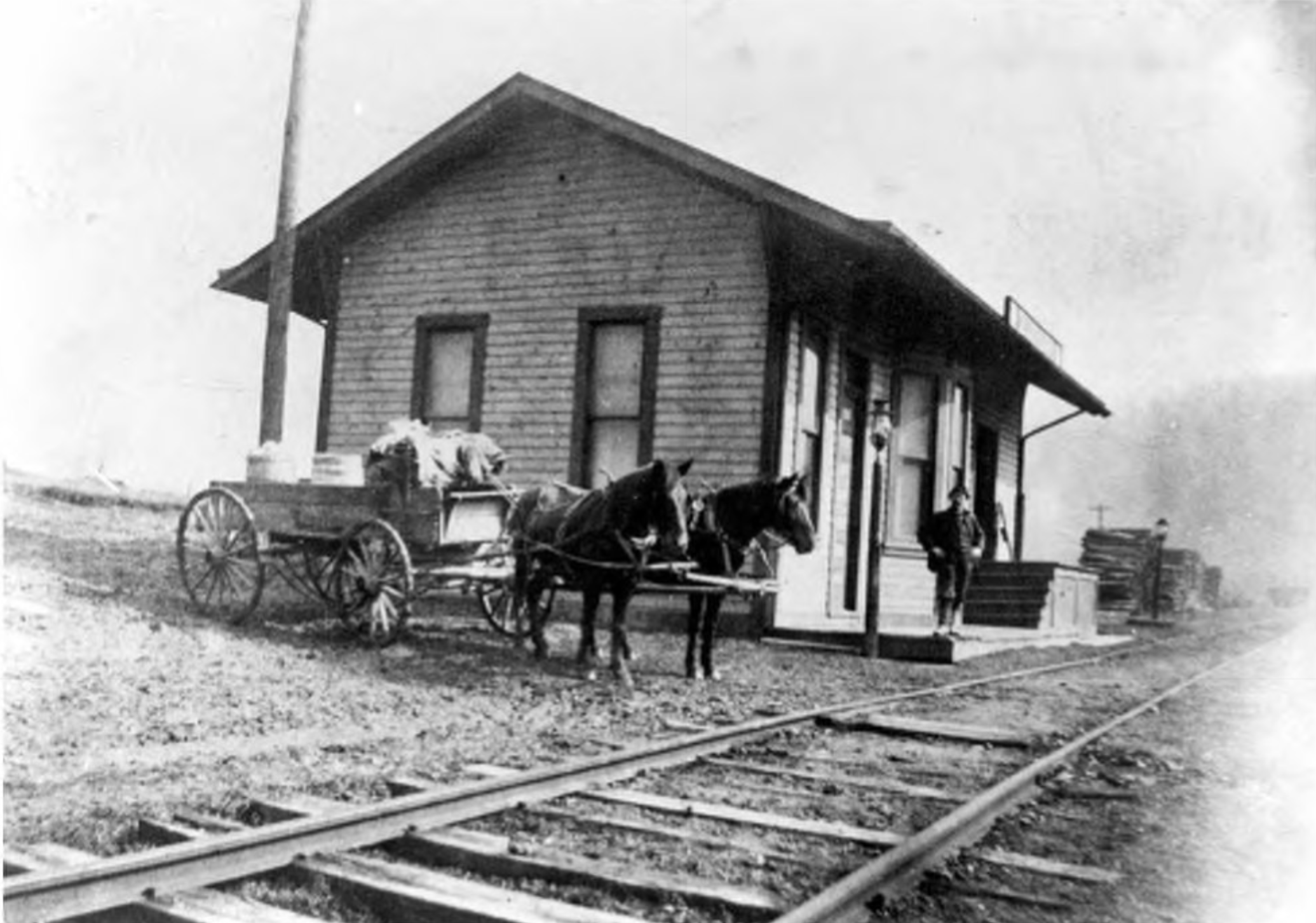 Murrysville Train Station circa 1900 near milepost 6 on the Turtle Creek Valley Railroad